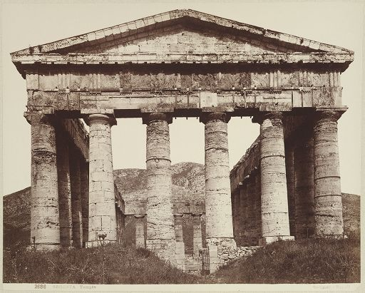 Giorgio Sommer (1834-1914) - Temple of Segesta, catalogue number 2686.